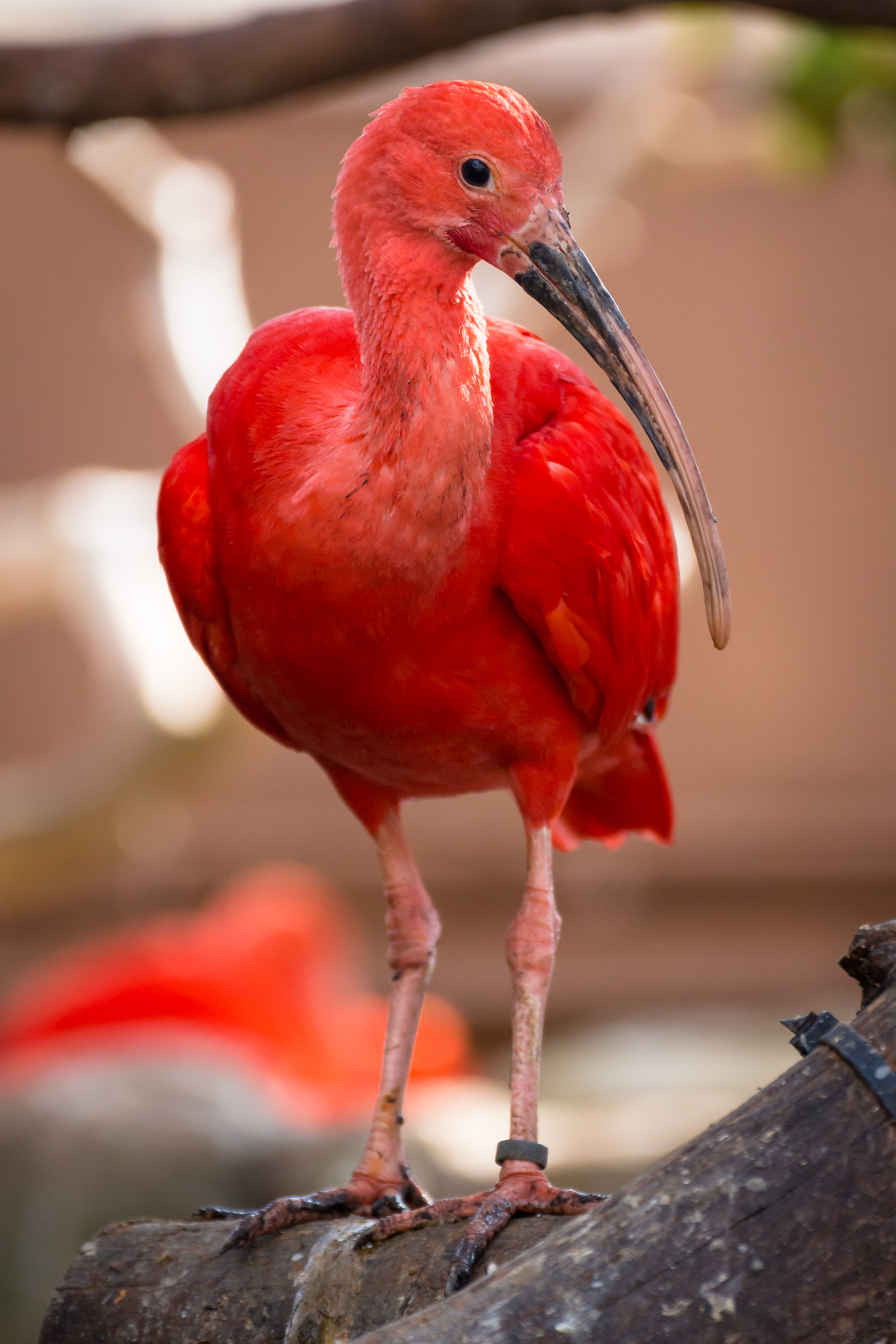 Scarlet Ibis in the Wetlands Aviary of the Oceanogràfic in Valencia